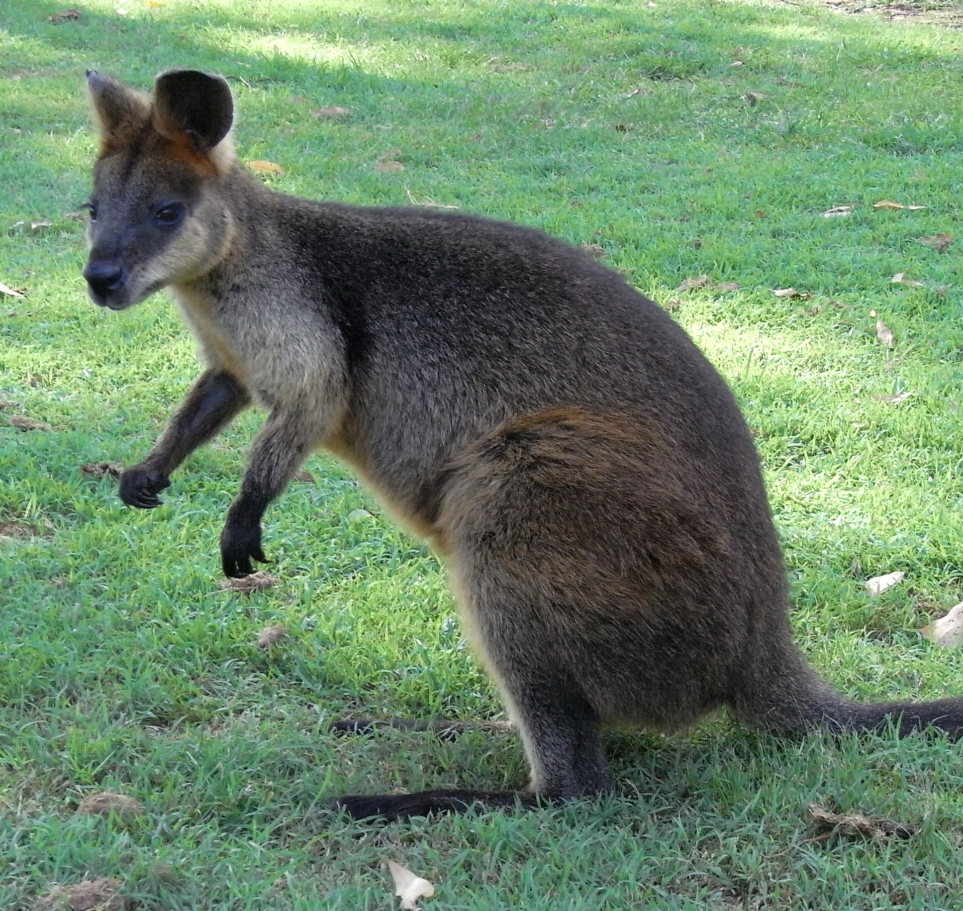 Swamp Wallaby (Wallabia bicolor) at Lone Pine Koala Sanctuary, Brisbane, Australia.